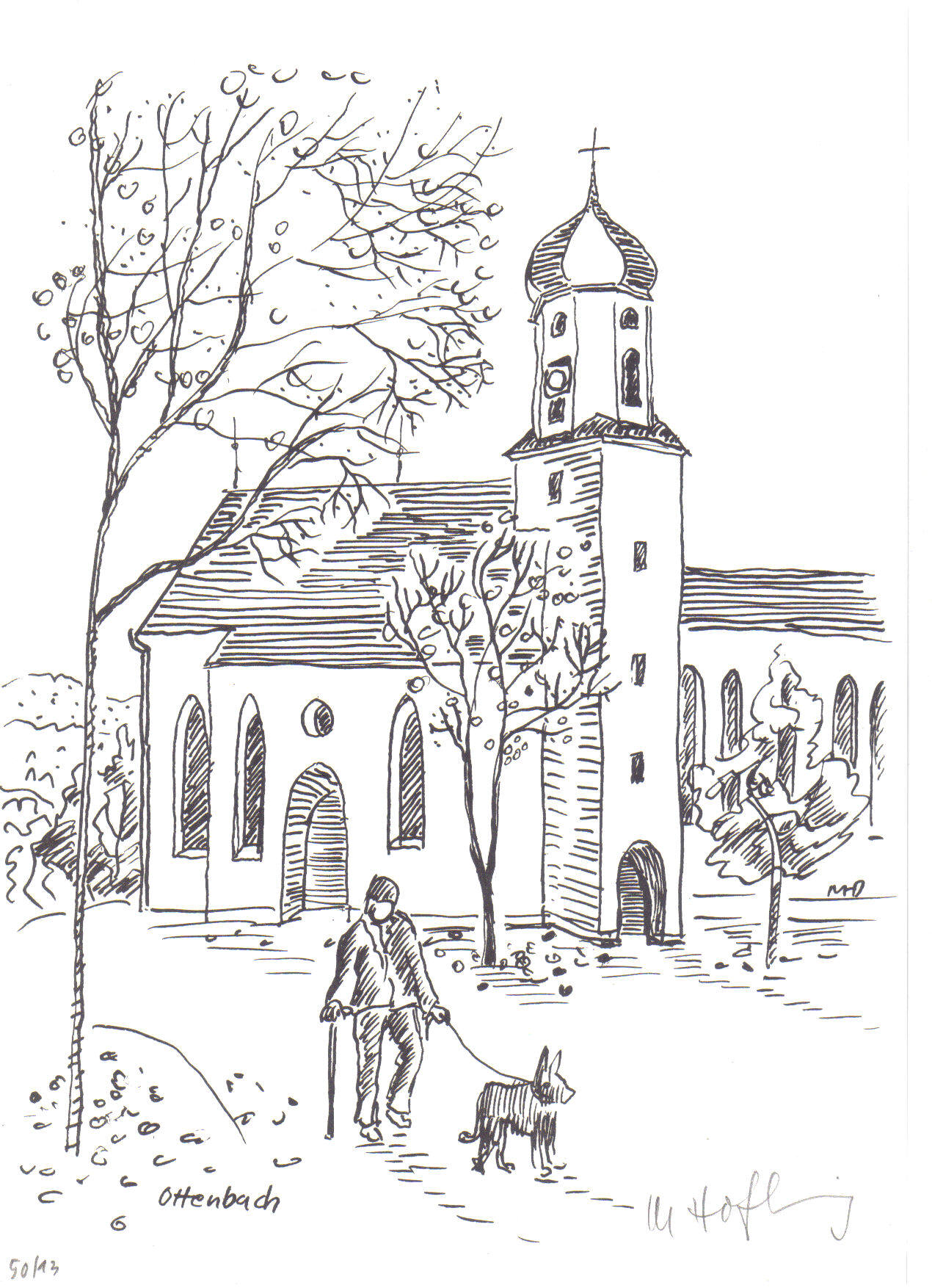 Ottenbach (Württemberg), ink drawing, 20 x 30 cm